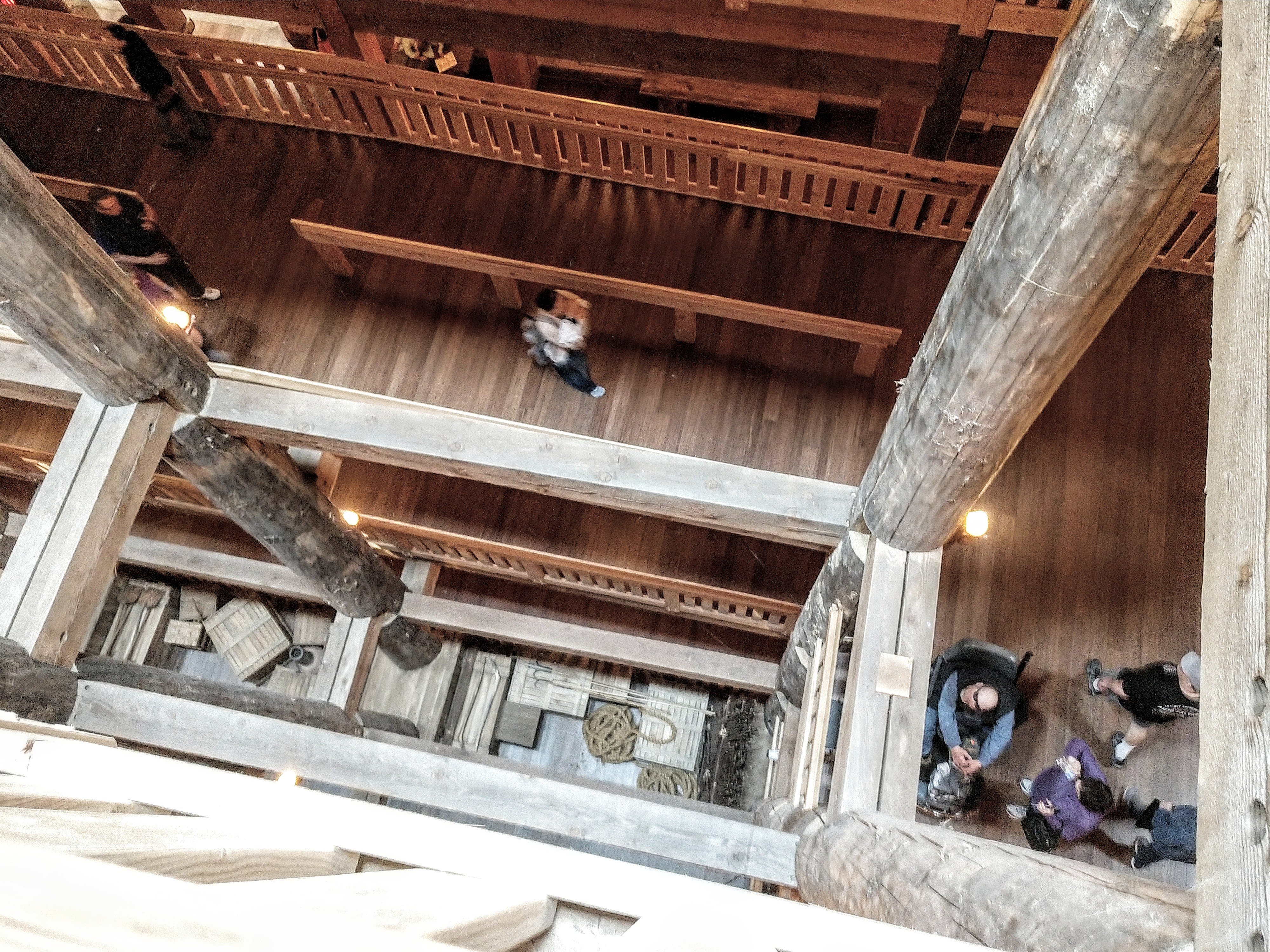 down to deck one